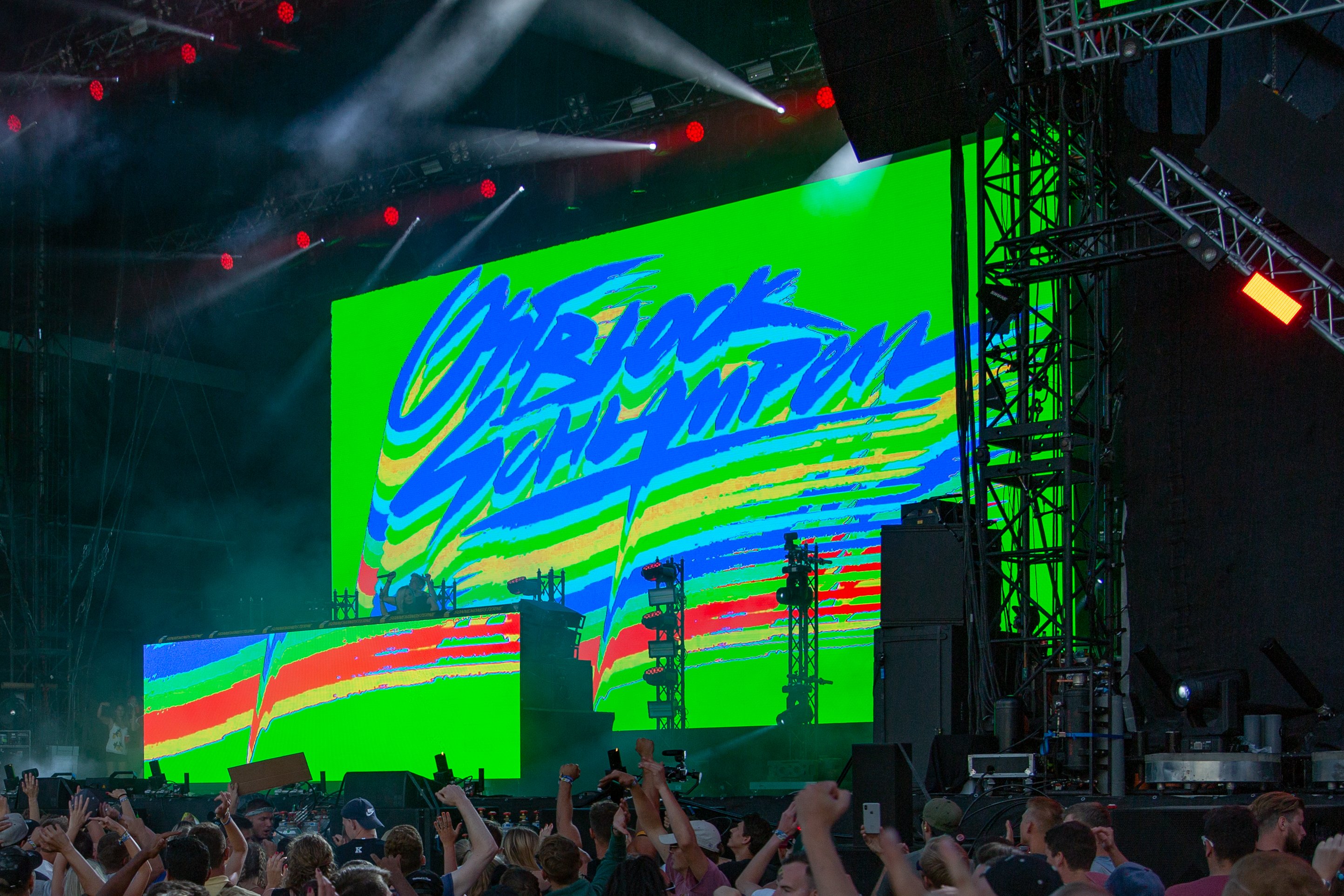 Ostblockschlampen at SonneMondSterne 2018, Mainstage